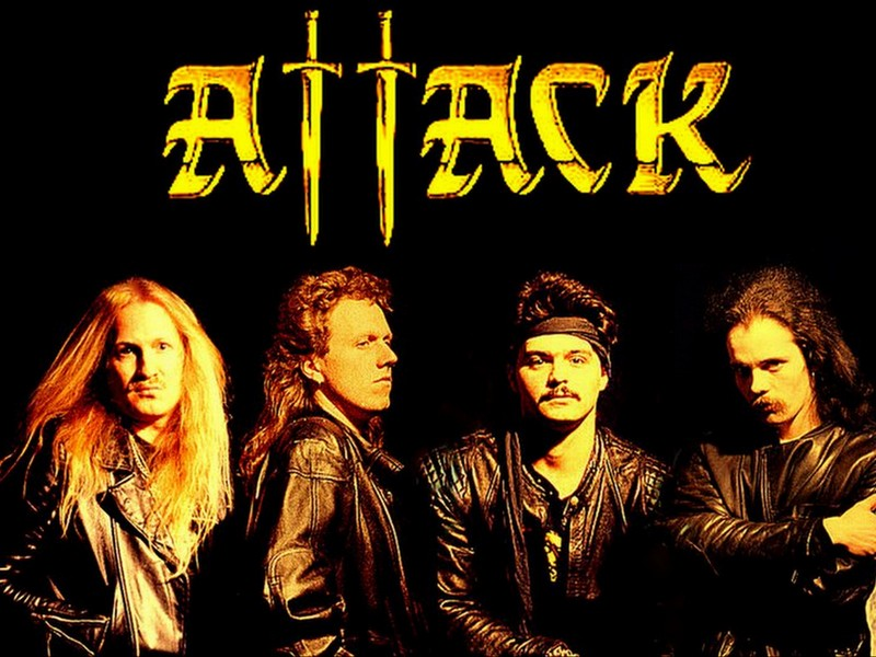 The German metal music band ATTACK